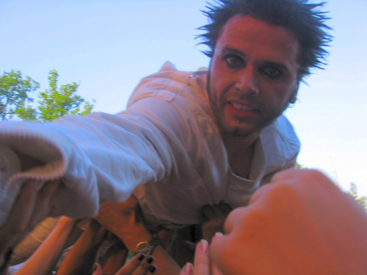 Dero, the singer of Oomph!, crowdsurfing at Ruisrock 2006 (Turku, Finland).